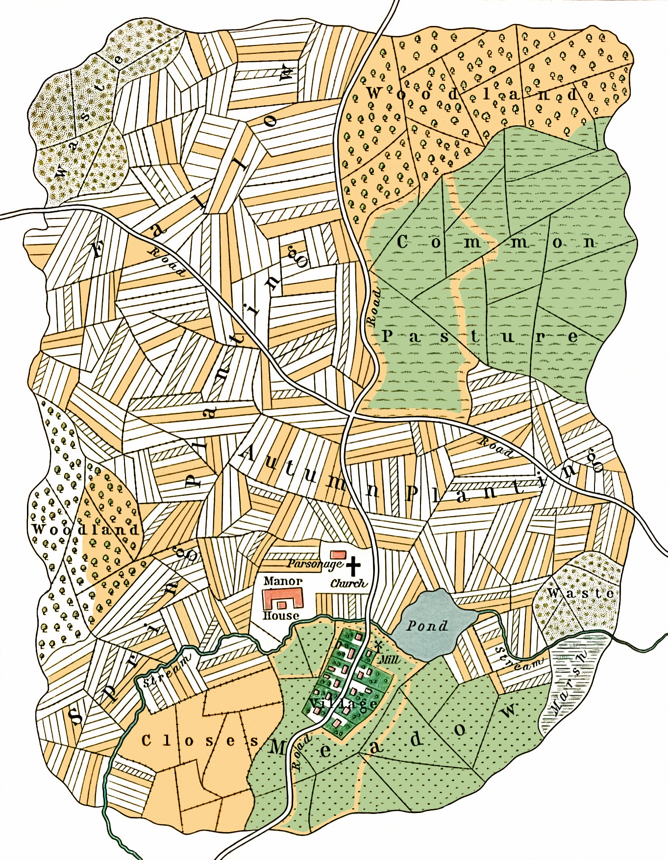 Plan of a fictional mediaeval manor showing the open field system.